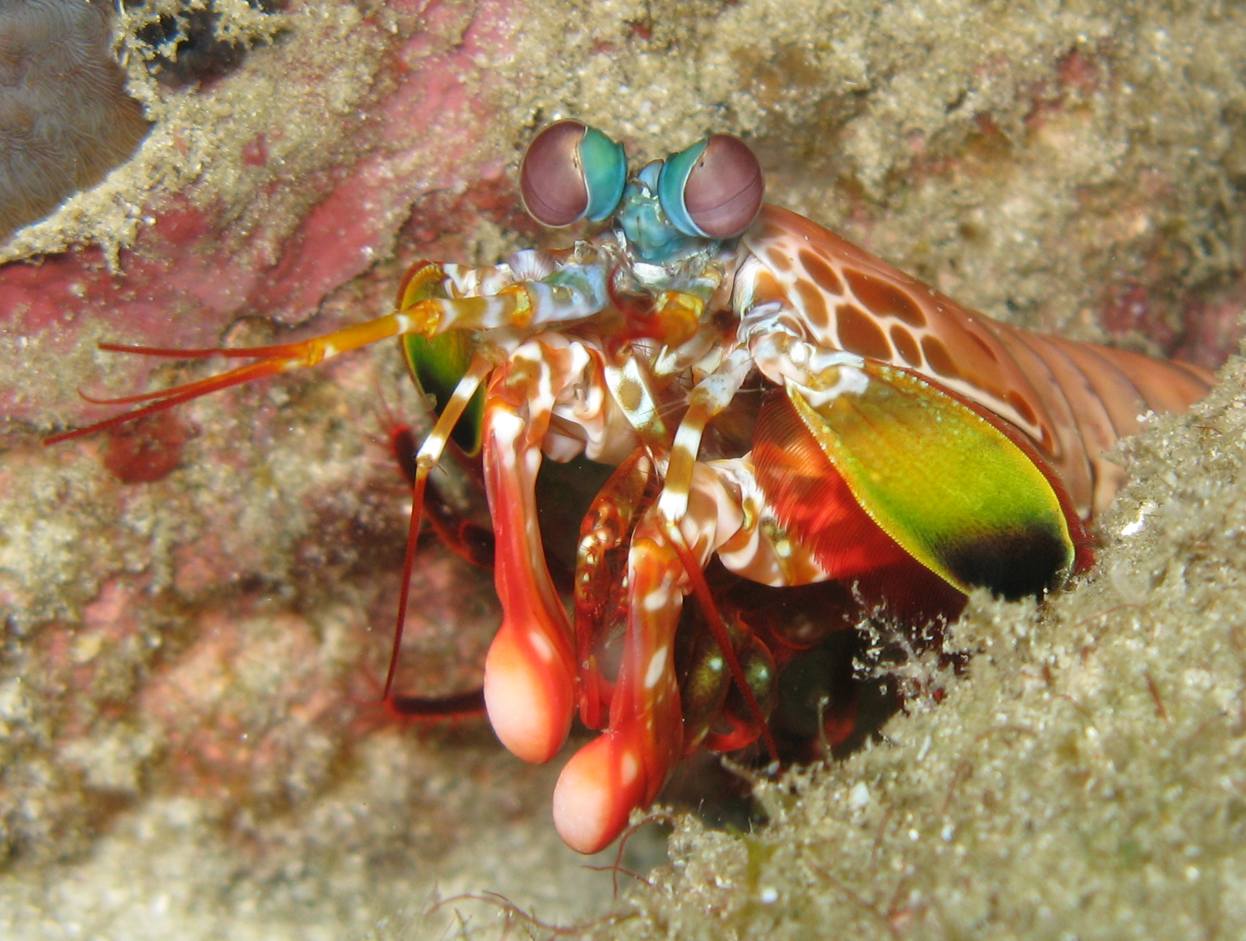 Closeup of a stomatopod crustacean (mantis shrimp) Odontodactylus scyllarus taken in the Andaman Sea off Thailand in February, 2008. This file has an extracted image: File:Odontodactylus scyllarus 2.png.